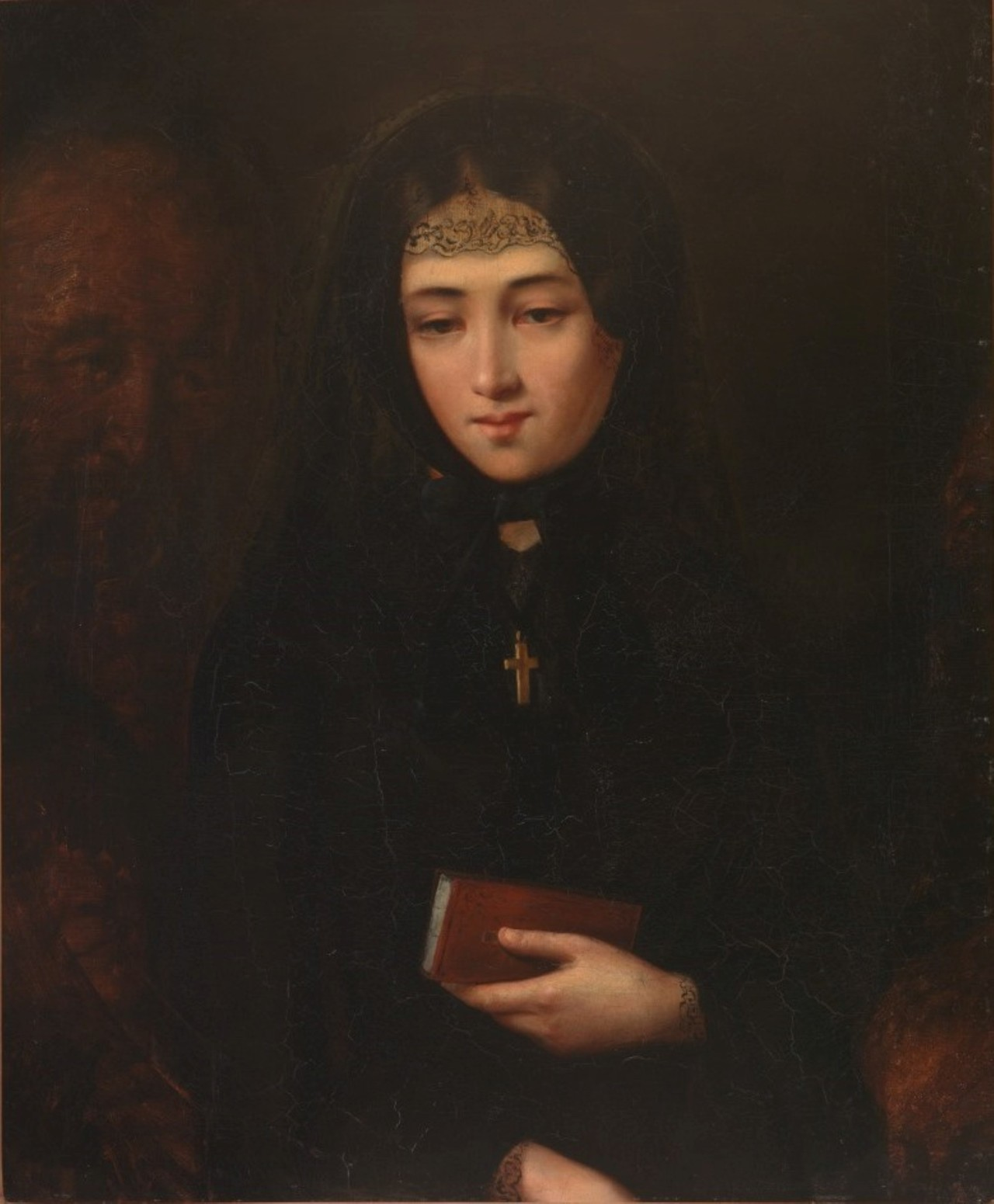 Humility